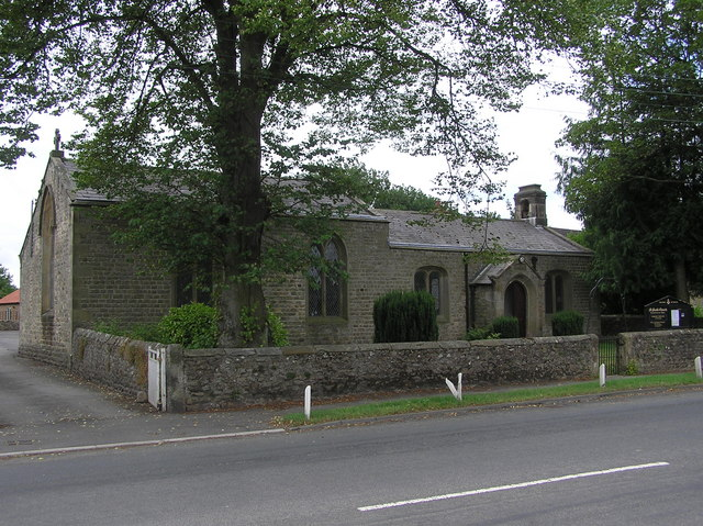 St. Paul's Chapel : Brompton on Swale. Built in 1838 as a Chapel of Ease to St. Agatha's Church, Easby.